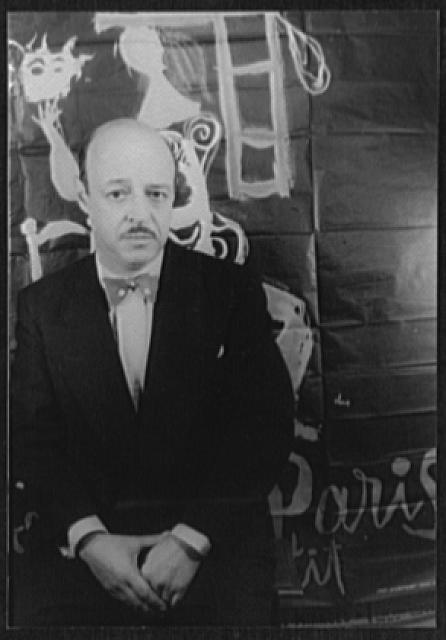 Title: Portrait of Charles Jackson Abstract/medium: 1 photographic print : gelatin silver.